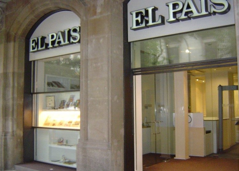 The entrance to the offices of El País in Barcelona.